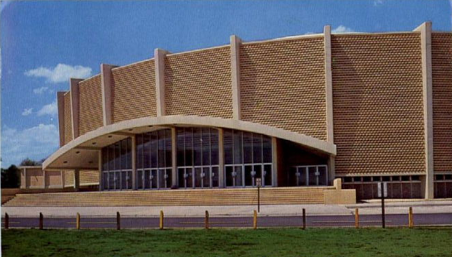 from old photo album